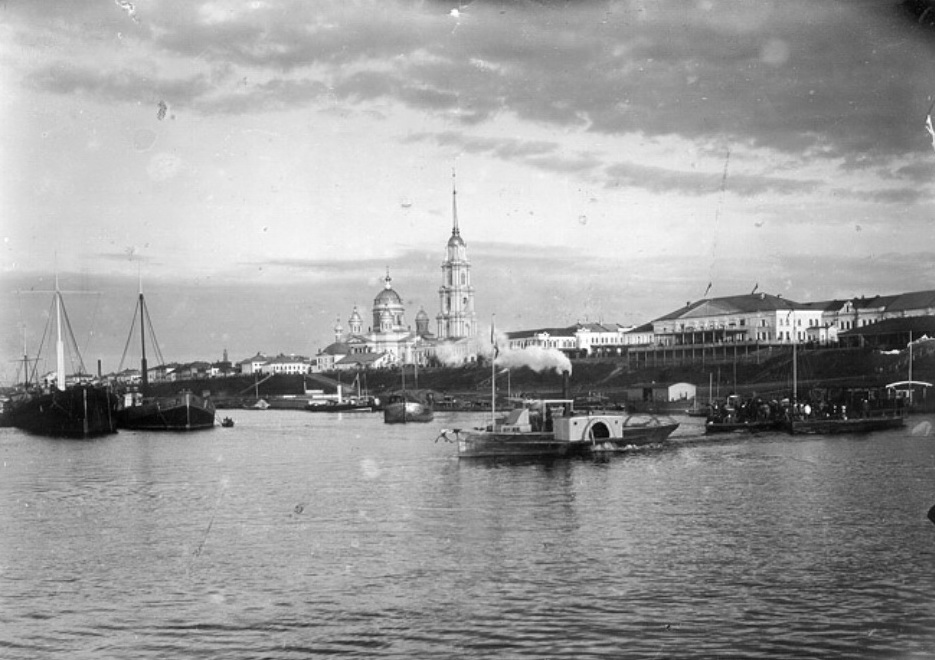 Type of Rybinsk from the Volga.